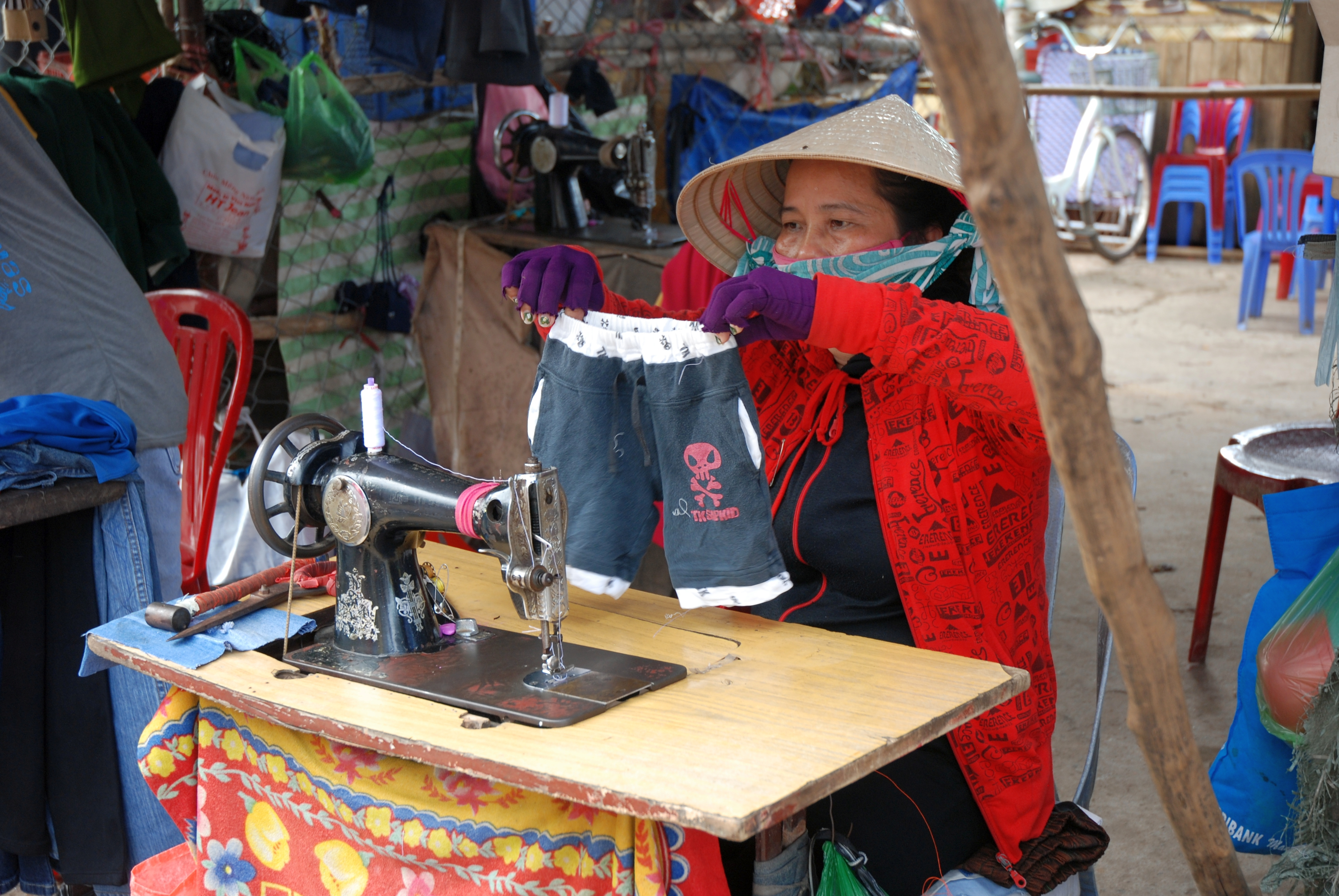 Sewing woman on a market in Dương Đông, Phú Quốc island, Vietnam